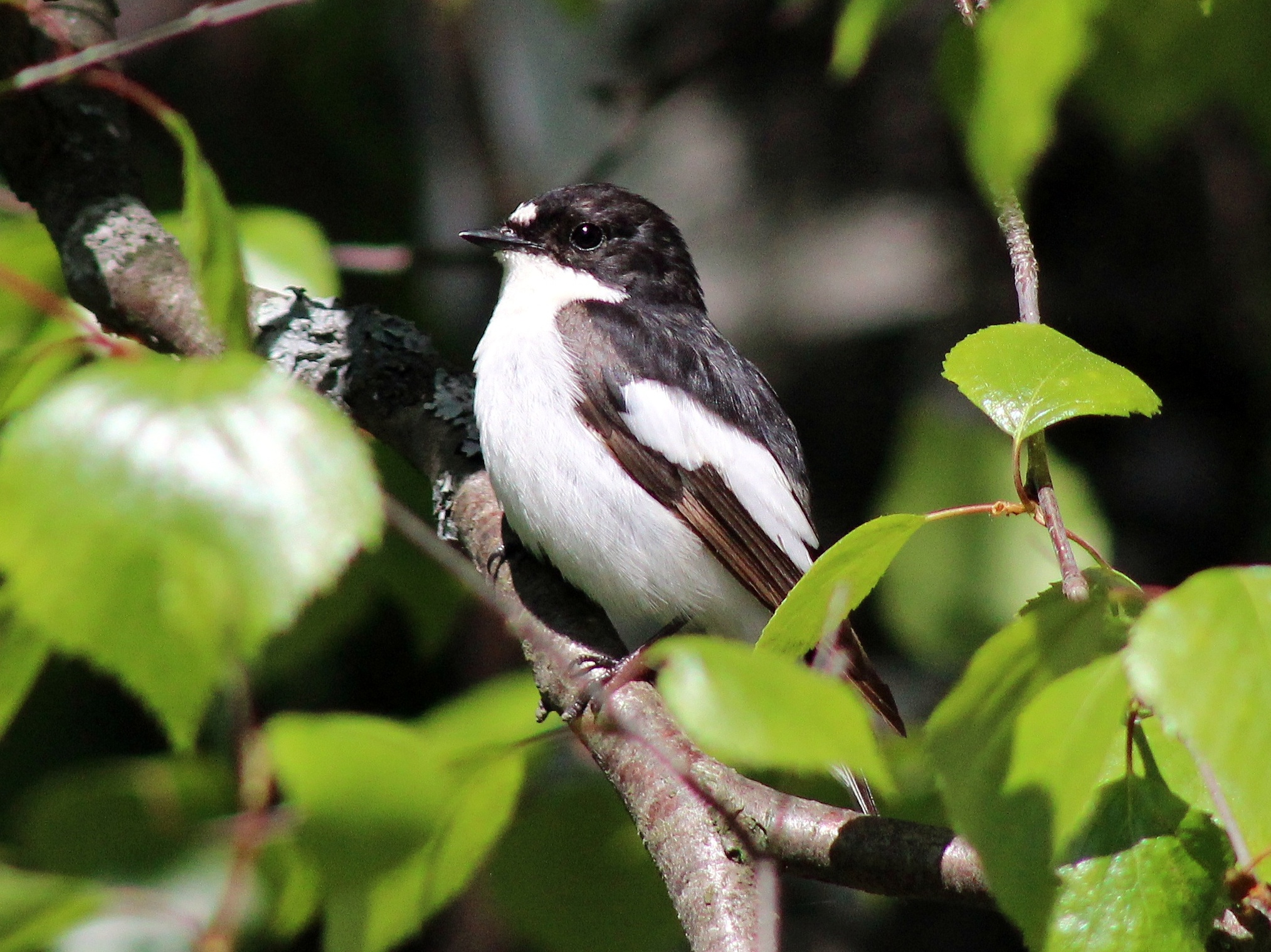 A male European Pied Flycatcher (Ficedula hypoleuca) in Haukipudas, Finland.